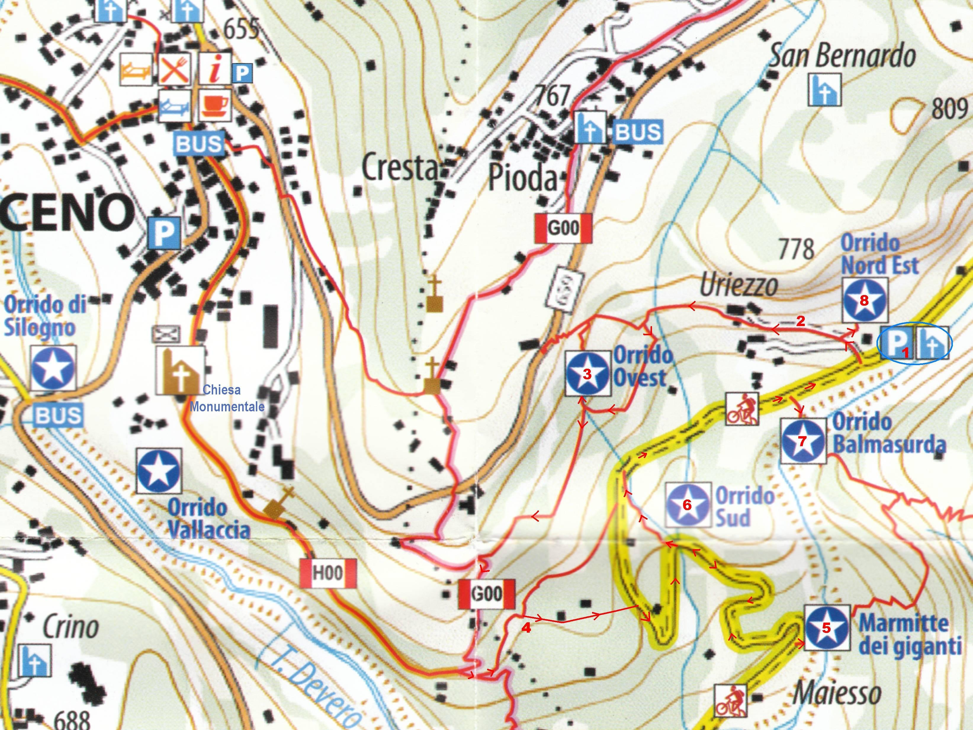 hiking area gorges of Uriezzo, Map of the tourism agency